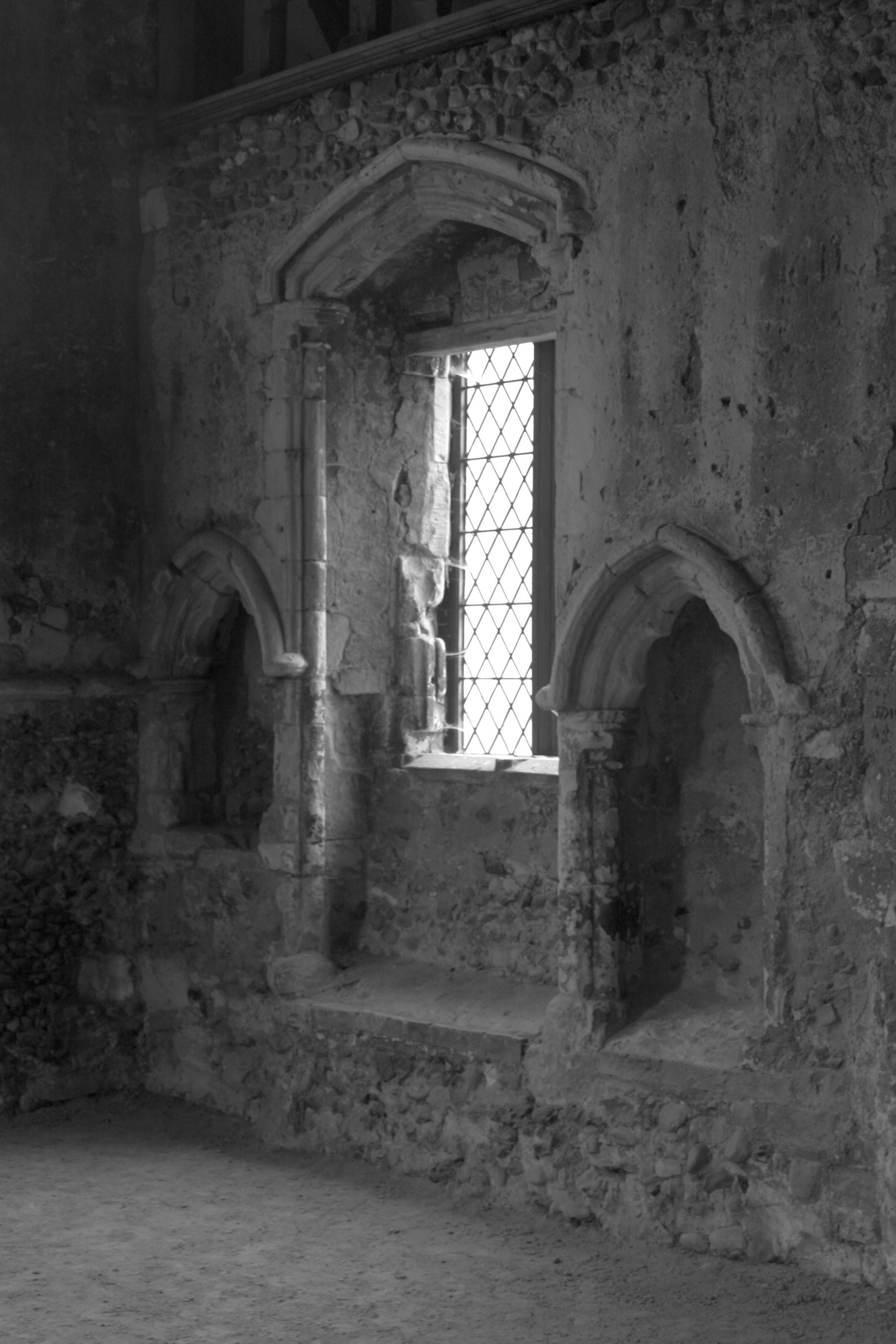 Inside of Duxford Chapel, Whittlesford, Cambridgeshire UK